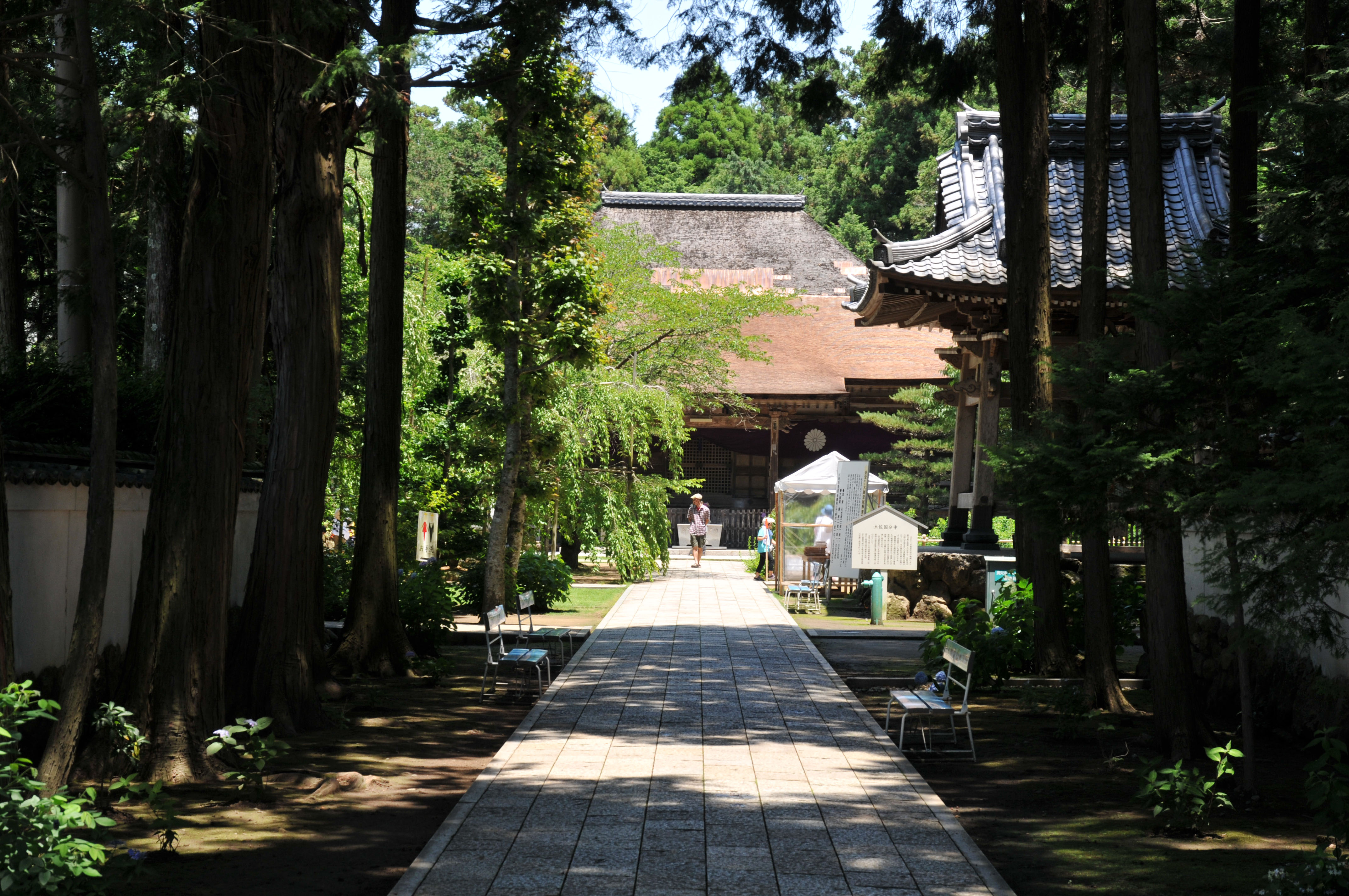 Tosa Kokubun-ji temple